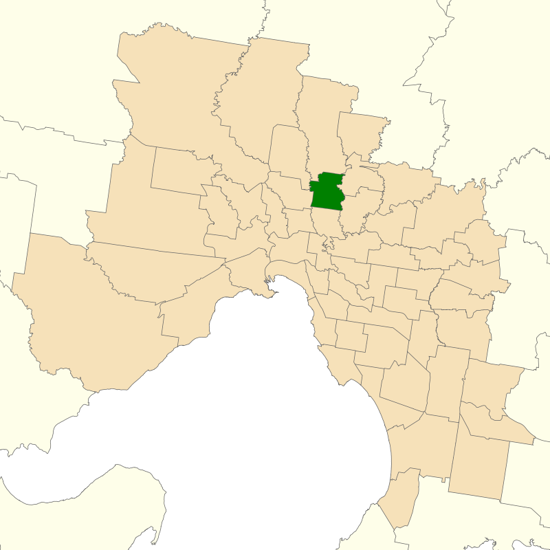 Location of the Victorian electoral district of Preston (dark green) in the Greater Melbourne area.